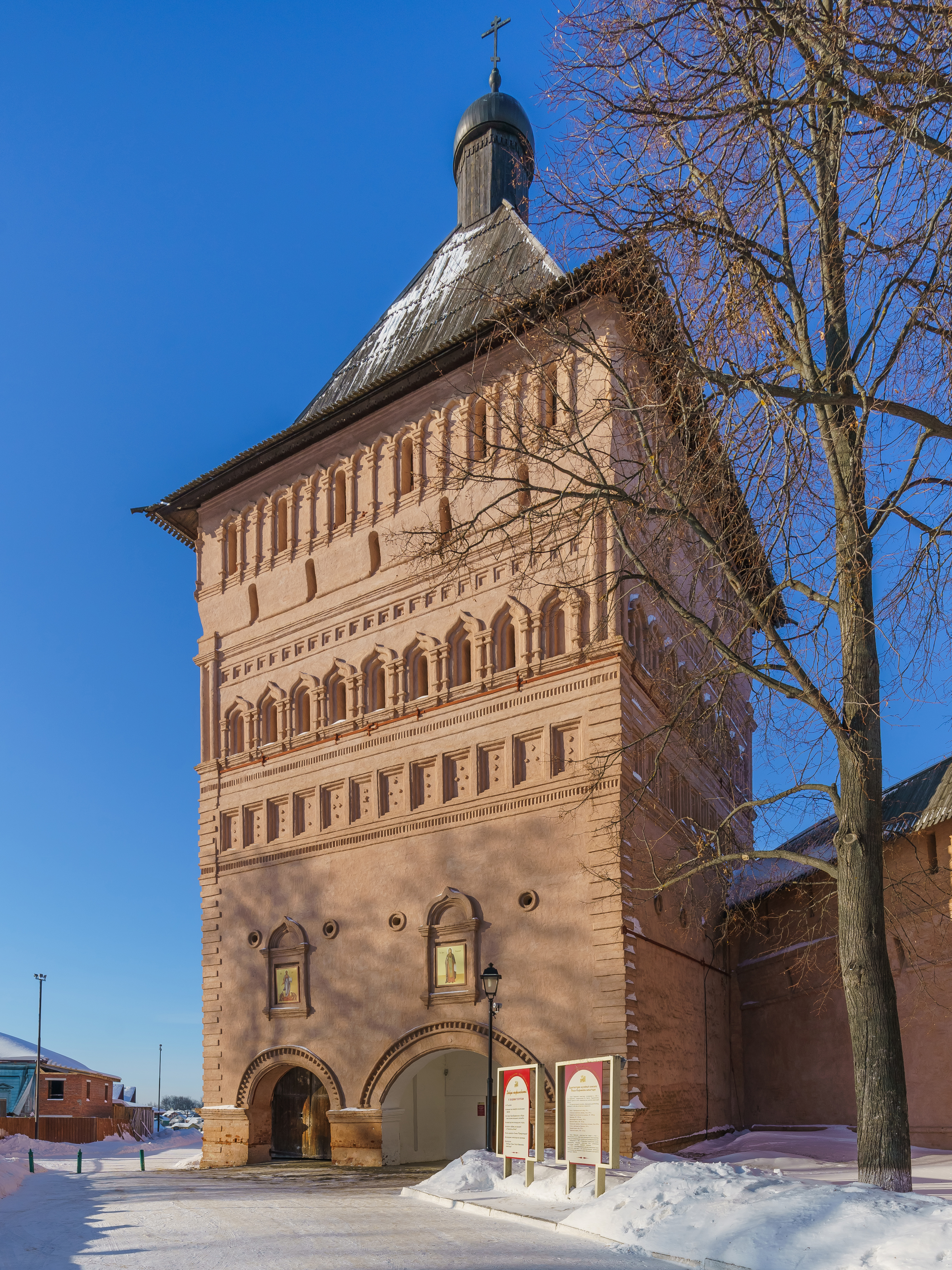 Fortification walls and towers around Spaso-Evfimiev Monastery in Suzdal, Russia